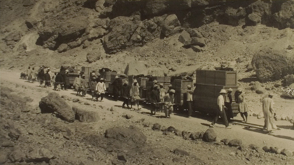 Harry Burton: Tutankhamun tomb photographs: a photographic record in 5 albums containing 490 original photographic prints ; representing the excavations of the tomb of Tutankhamun and its contents. Vol. 1